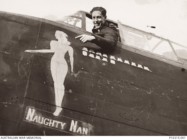 AWM caption : 422038 Pilot Officer (PO) Colin Dickson, 467 Squadron RAAF, sitting in the cockpit of a Lancaster aircraft with the nose art 'Naughty Nan'. An electrician from Kempsey in civilian life, PO Dickson was one of the crew of Lancaster aircraft JA901 which took off from RAF Waddington, England on the night of 3/4 May 1944 to bomb military camps at Mailly-le-Camp, France. The aircraft was shot down on 4 May 1944 at Mertz, France. PO Dickson was one of the five crew members who were killed. He was aged 23. Two other crew members survived and evaded capture.